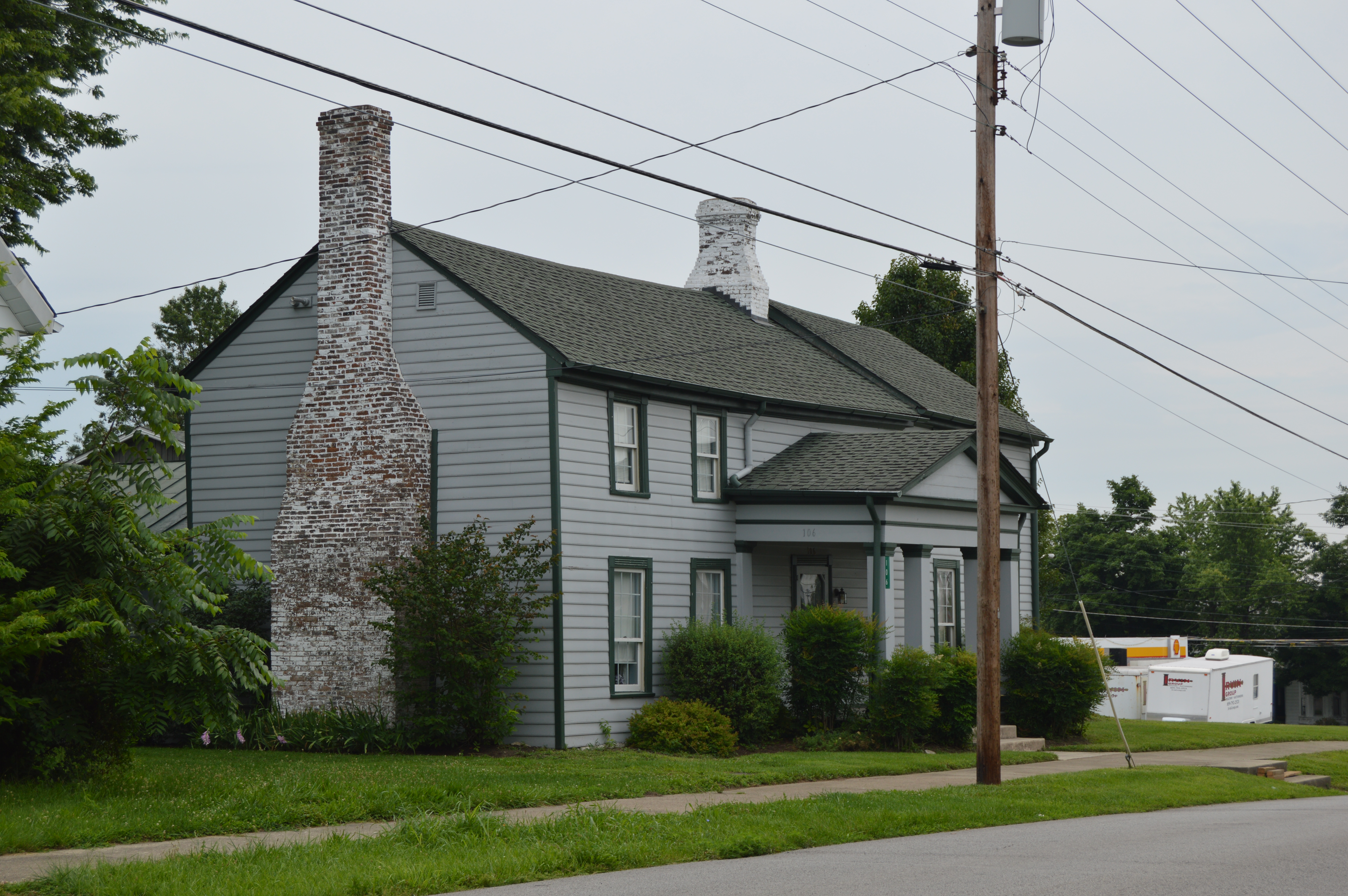 Western side and front of the Boyle-Robertson-Letcher House, located at 106 W. Maple Street in Lancaster, Kentucky, United States. Built in 1798, it is listed on the National Register of Historic Places. It was home to four prominent politicians: John Boyle (its builder), Samuel McKee, George Robertson, and Robert P. Letcher.